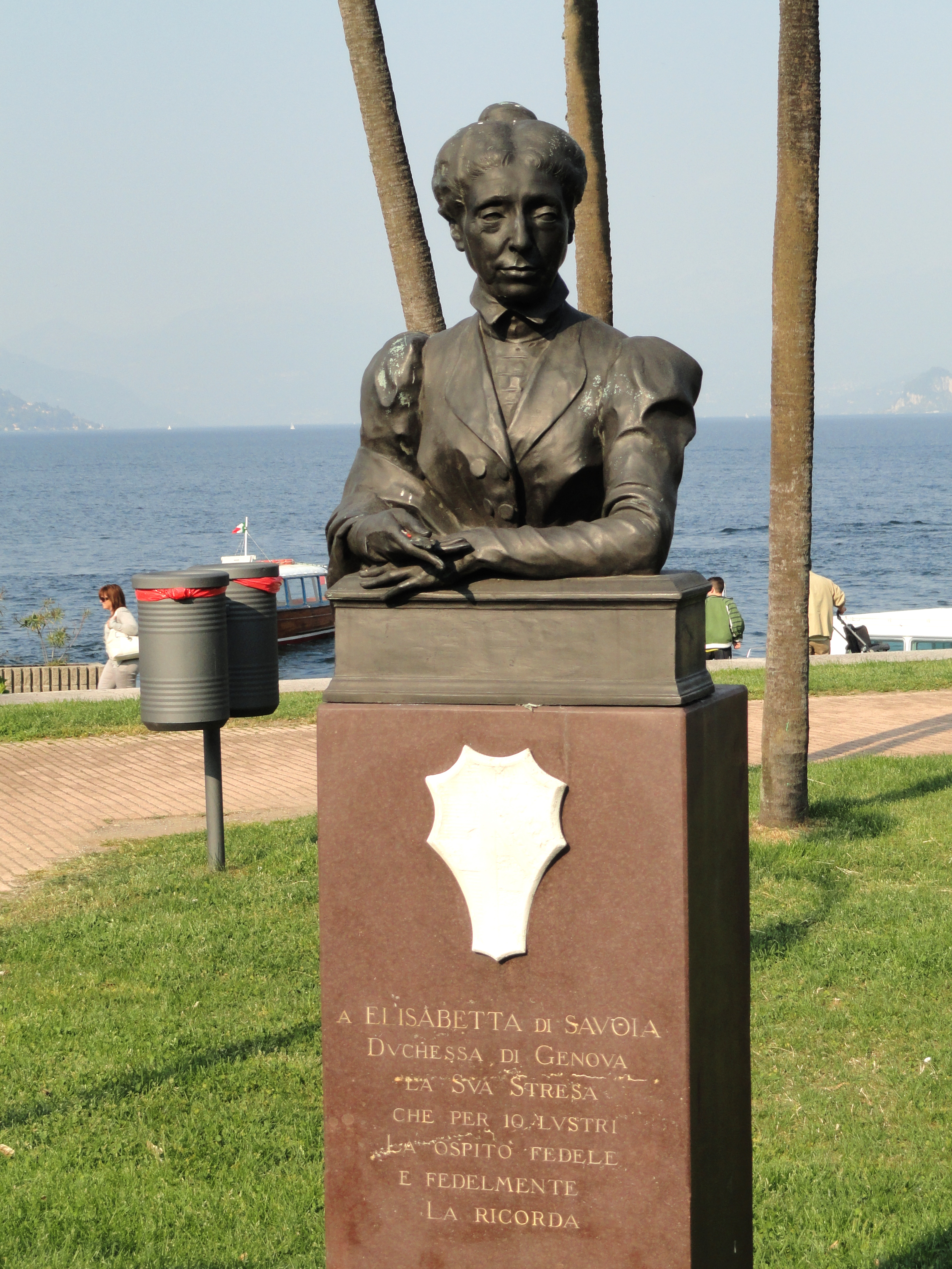 Monument to Princess Elisabeth of Saxony (also known as Princess Elisabeth of Savoy), 1830–1912, who died in Stresa. Statue in Stresa, Province of Verbano-Cusio-Ossola, Italy.